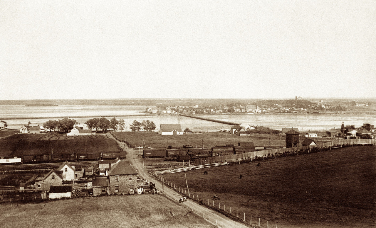 Bathurst, New Brunswick, Canada, as seen from the Sacred Heart College.